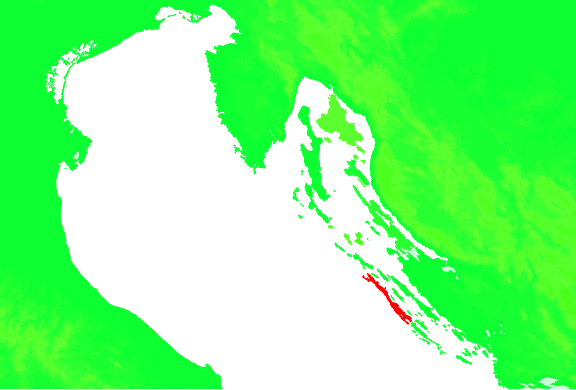 Island of Croatia Croatia - Dugi Otok.PNG